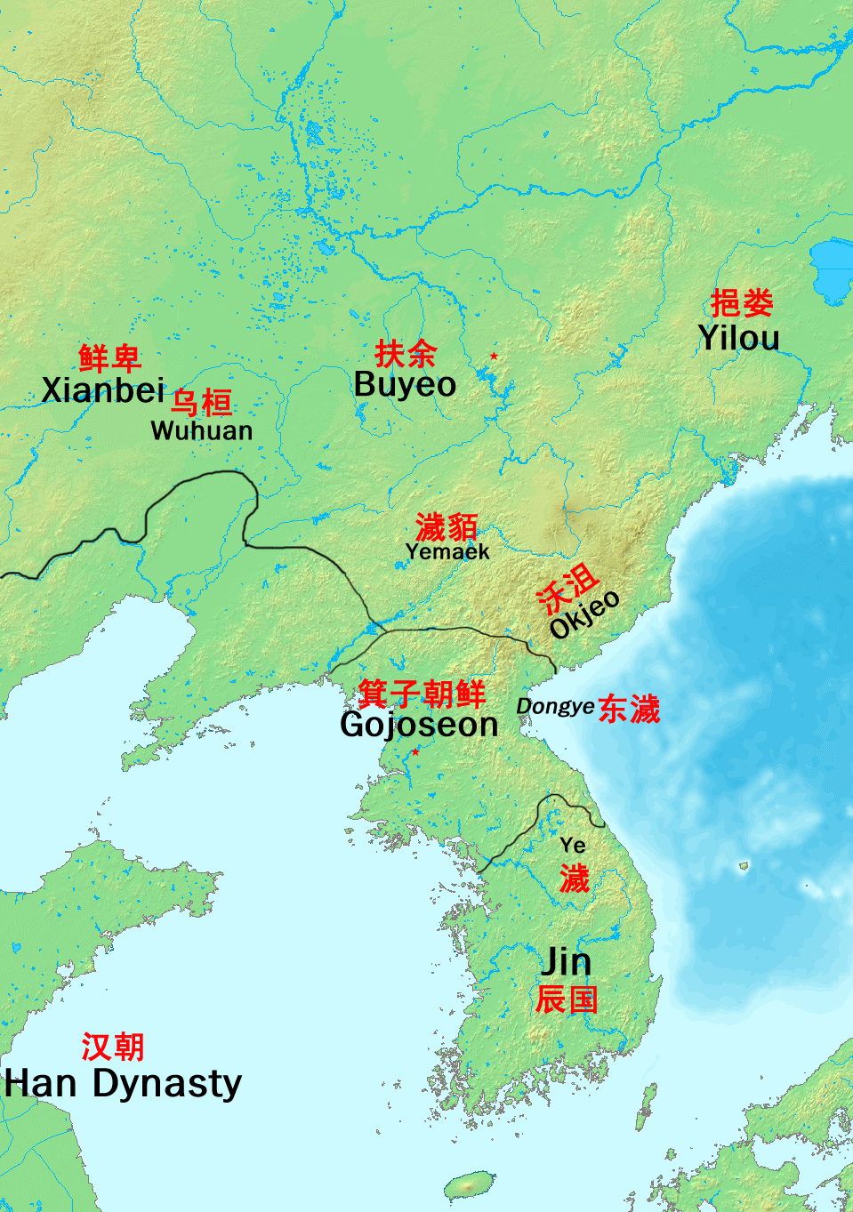 Korea in 108 BCE.